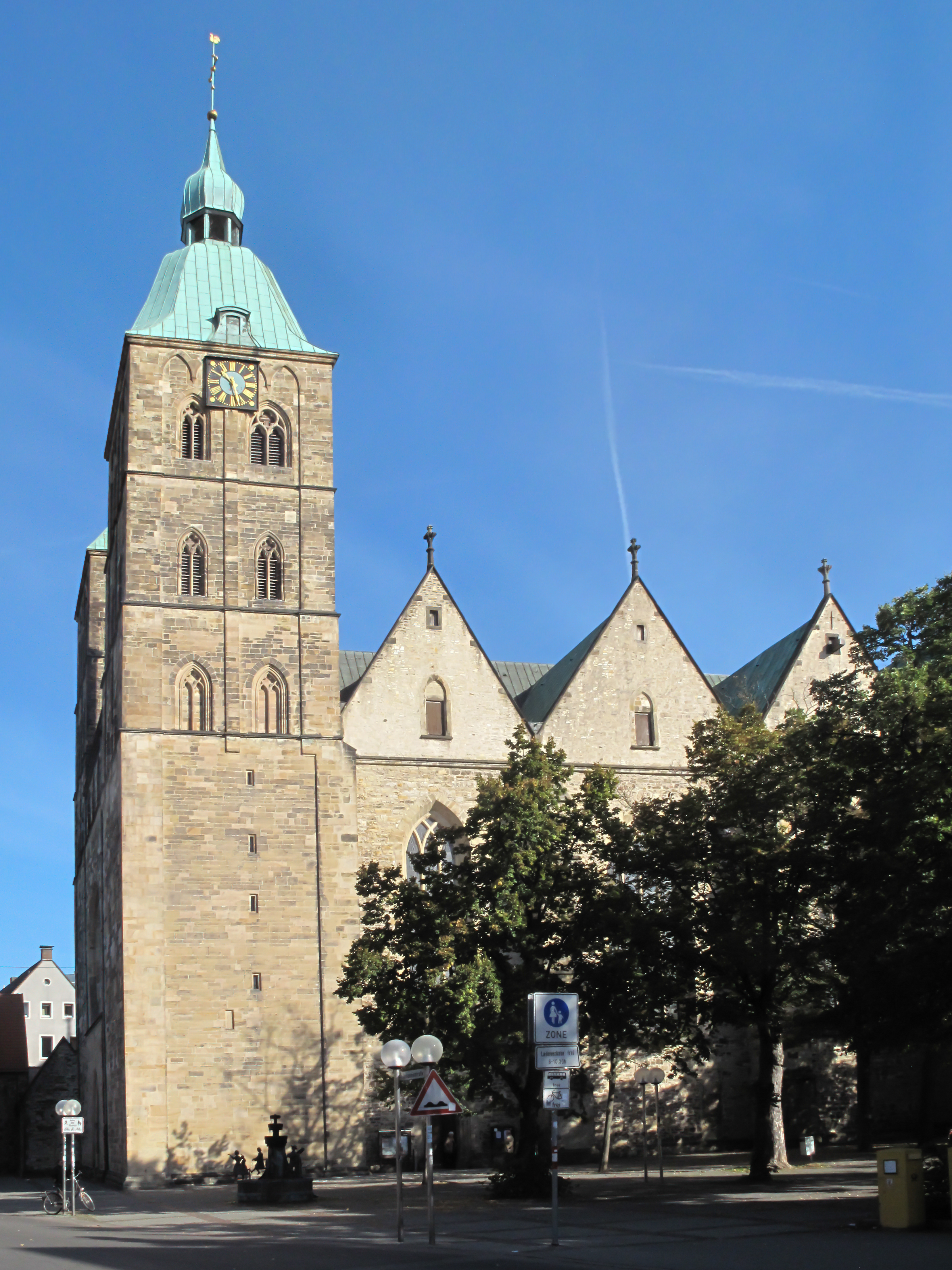 Osnabrück, church: die Johanniskirche